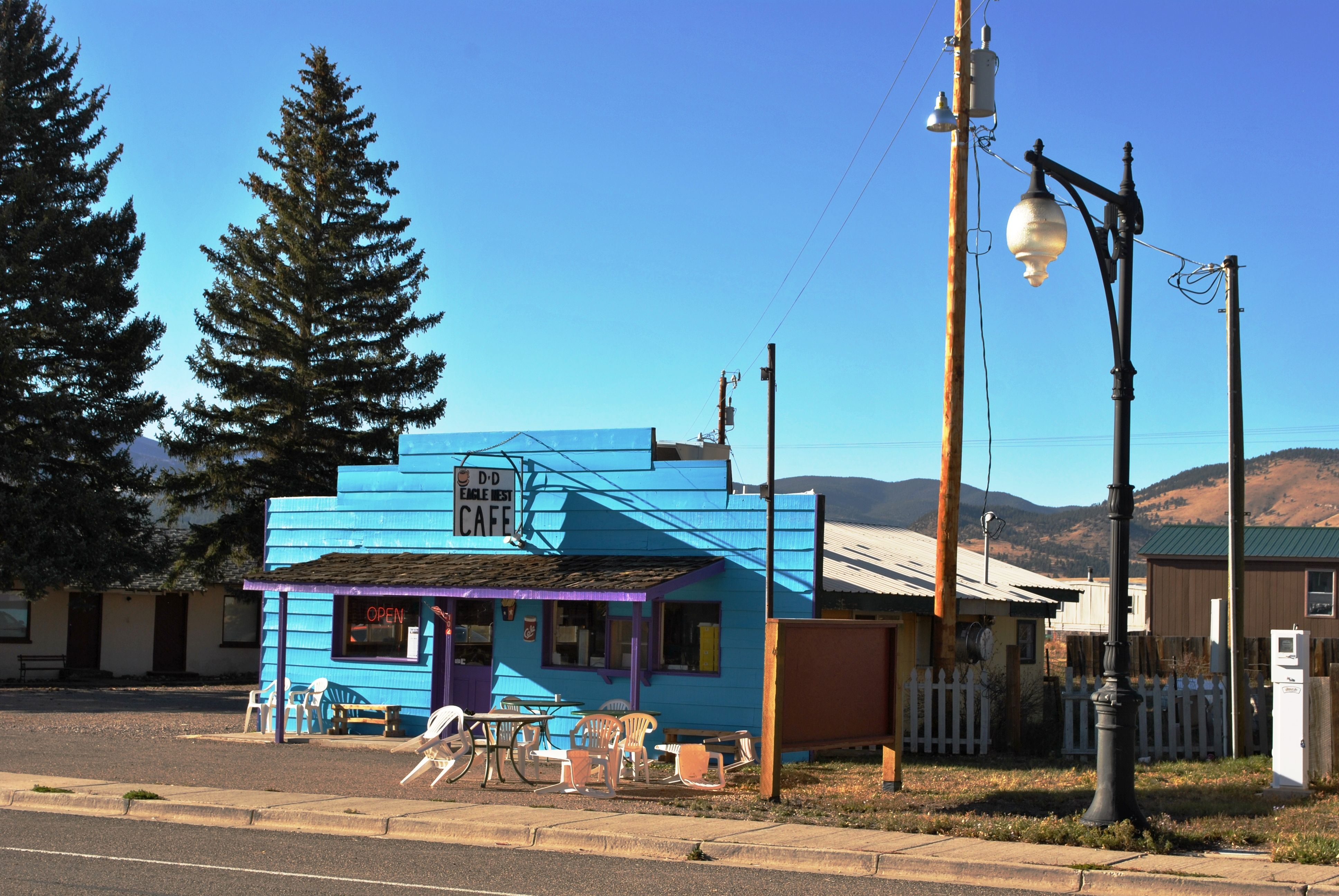 Eagle Nest, New Mexico